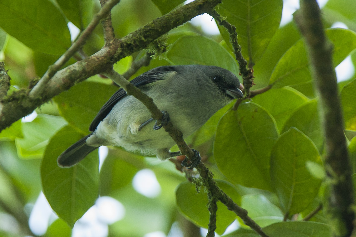 Plain-colored Tanager - Panama_H8O9422